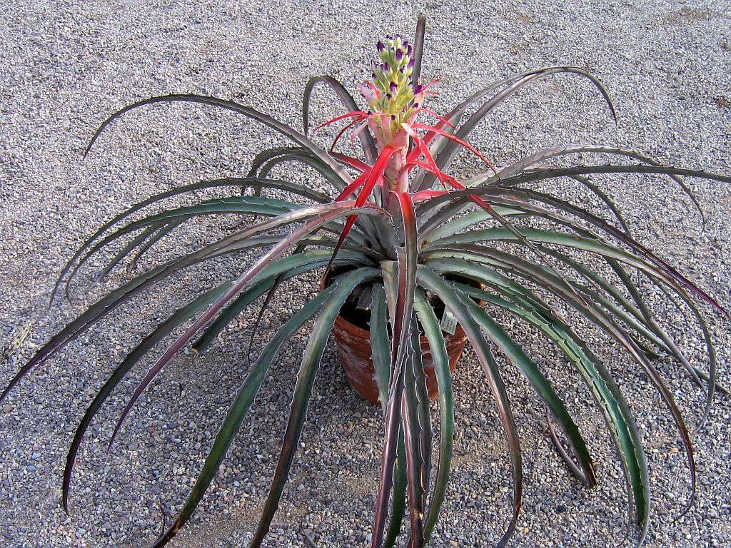 Bromelia laciniosa in cultivation at the Botanical Garden of Heidelberg, Germany.